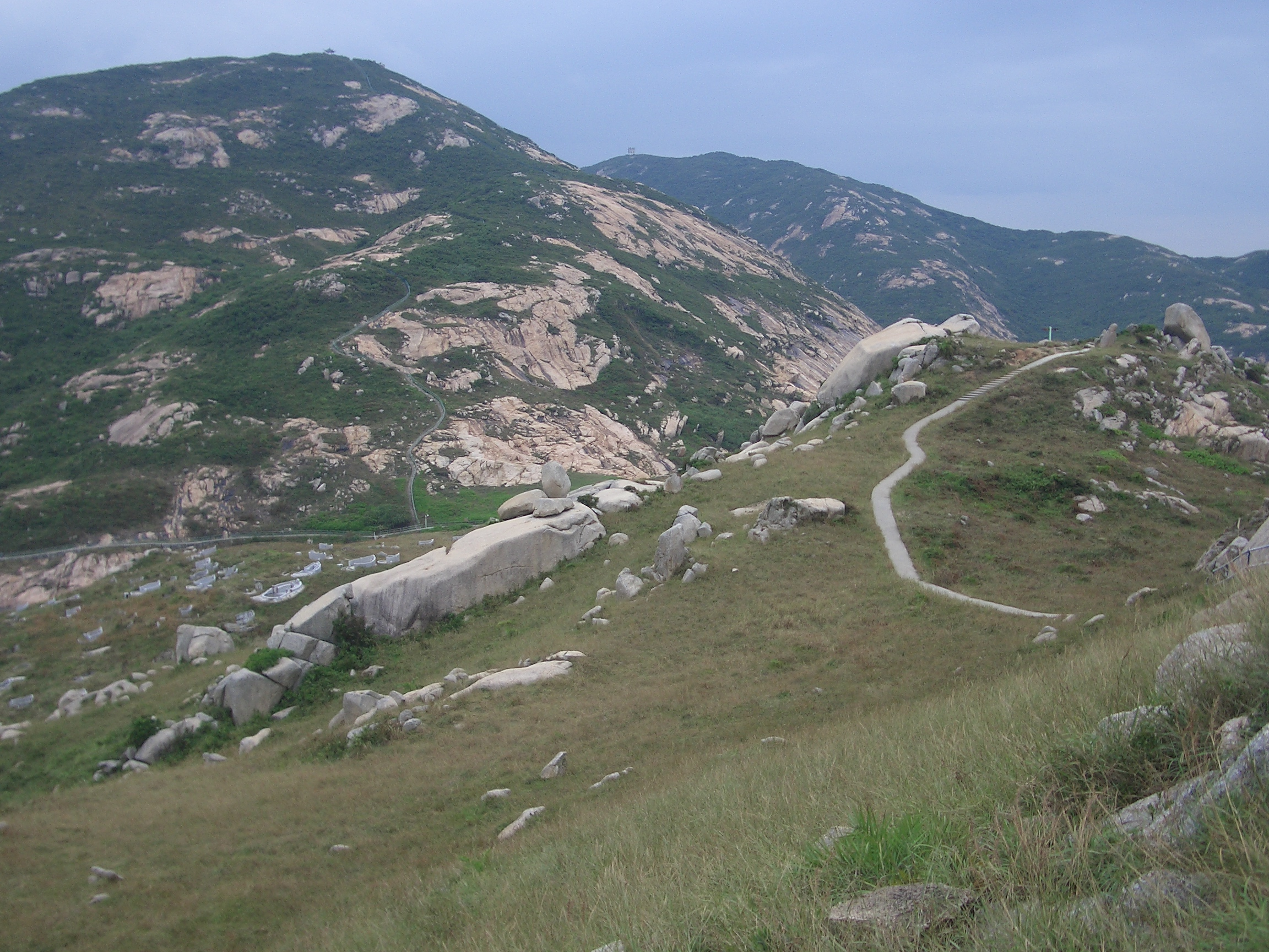 Rock formation - Tortoise Climbing up the Mountain (靈龜上山)